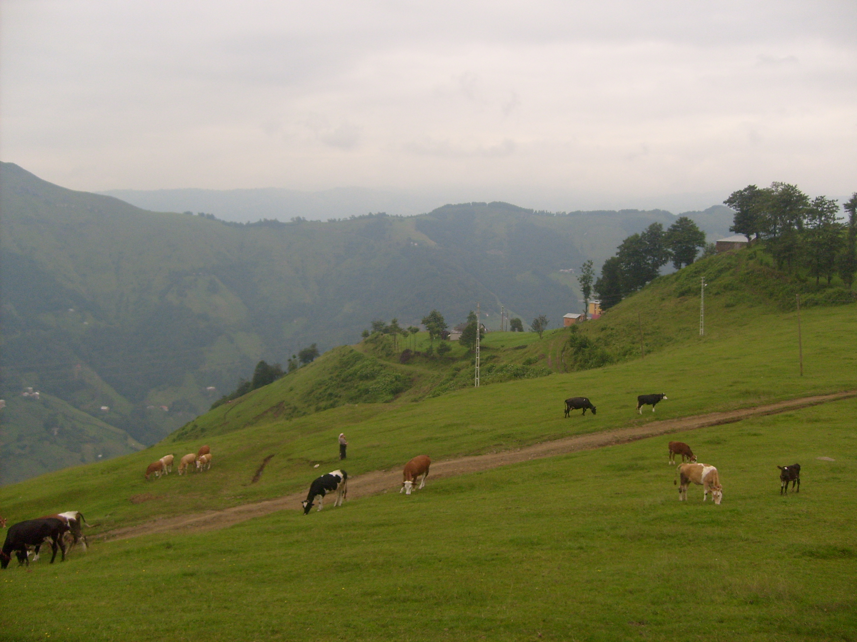 A view over the summer pastures of Şalpazarı disctrict in Trabzon province, northeastern Turkey